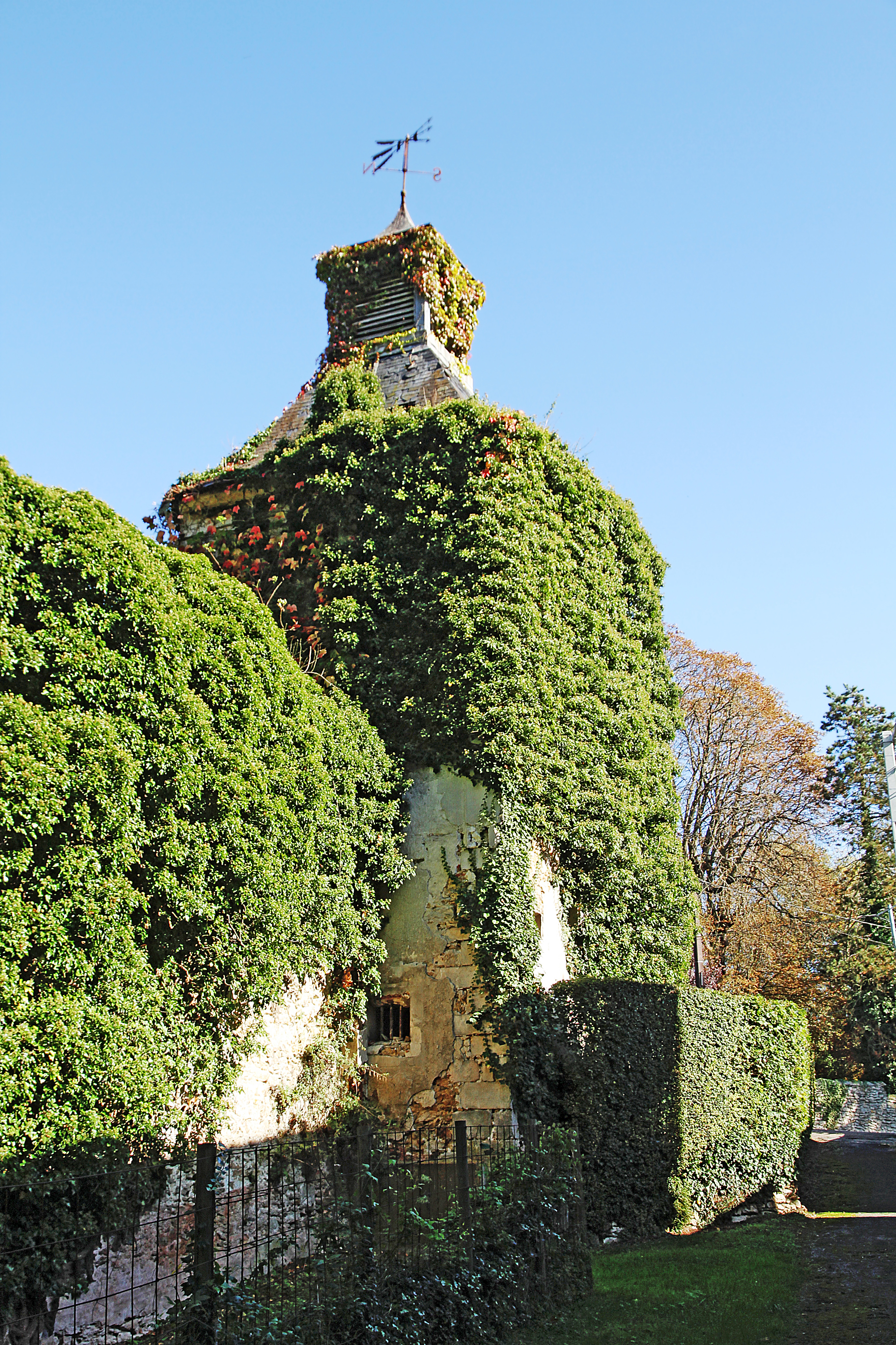 Tower of the castle gateway of Bréau